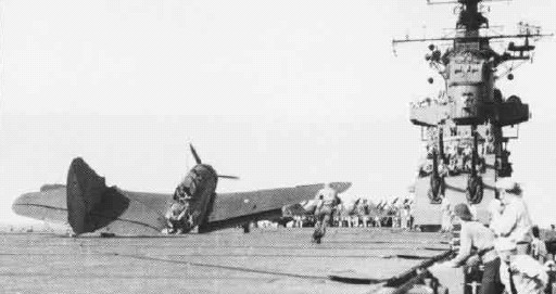 Landing mishap of a Curtiss SB2C-1 Helldiver of Bombing Squadron 17 (VB-17) from Carrier Air Group 17 (CVG-17) aboard the U.S. aircraft carrier USS Bunker Hill (CV-17) in 1943. The SB2C suffered from a lot of design failures and required some 800 changes before becoming fully operational. The crews therefore gave the aircraft names like "The Big-Tailed Beast" or simply "The Beast". Note that the Bunker Hill seems to be equipped only with the SC radar and not yet with the SK-1.